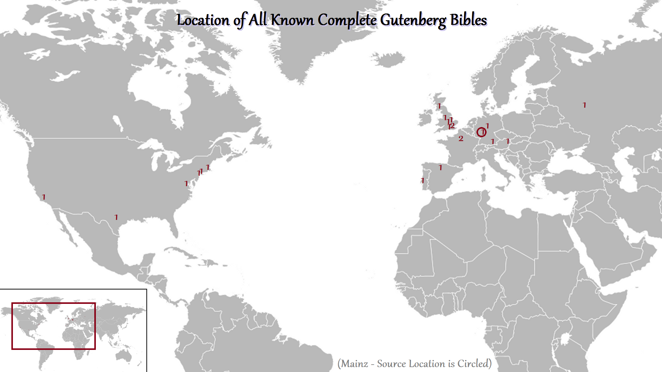 Locations of all known complete Gutenberg Bibles, with two each in London and Paris. From an original printing of approximately 180 copies, less than 50 are known to exist today. The locations of the incomplete books are not shown on this map, although Mainz is circled as the original location of printing and does have an incomplete Gutenberg Bible on display at the Gutenberg Museum.